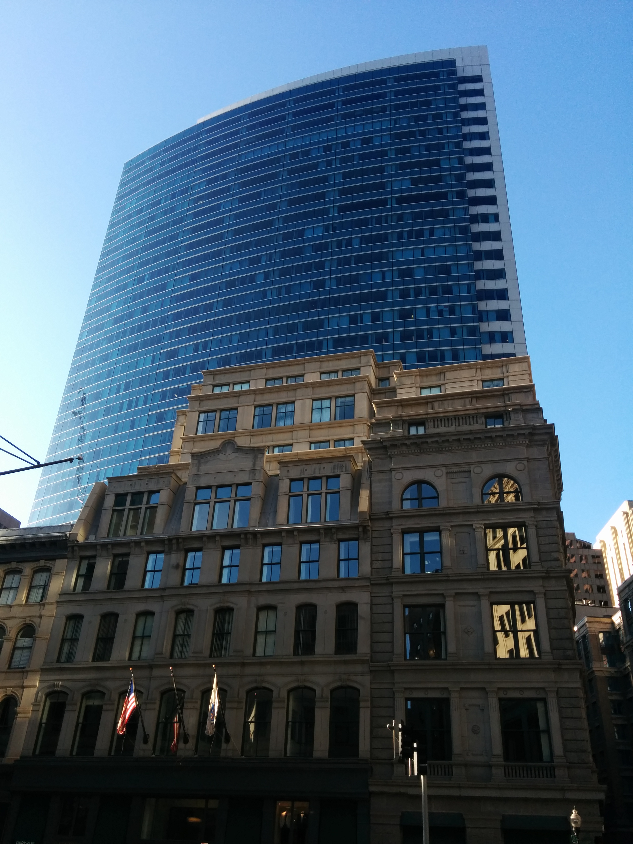 33 Arch Street skyscraper in Boston, MA, USA, as seen from Franklin Street.